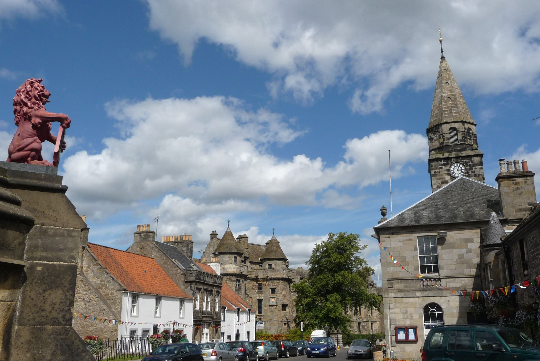 Falkland village in County Fife, Scotland